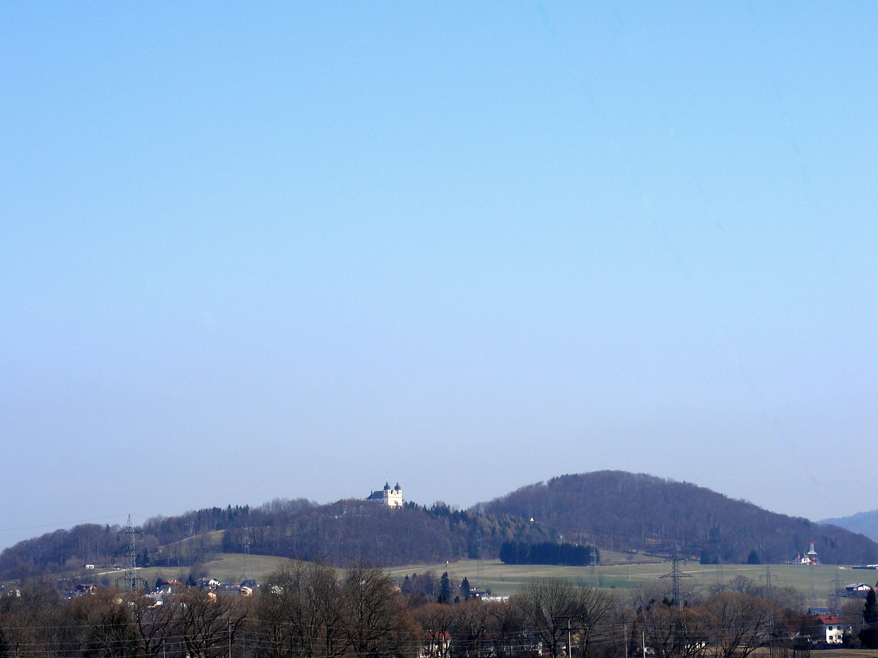 Plainberg mountain, Salzburg, Austria, view from Salzburg-Liefering